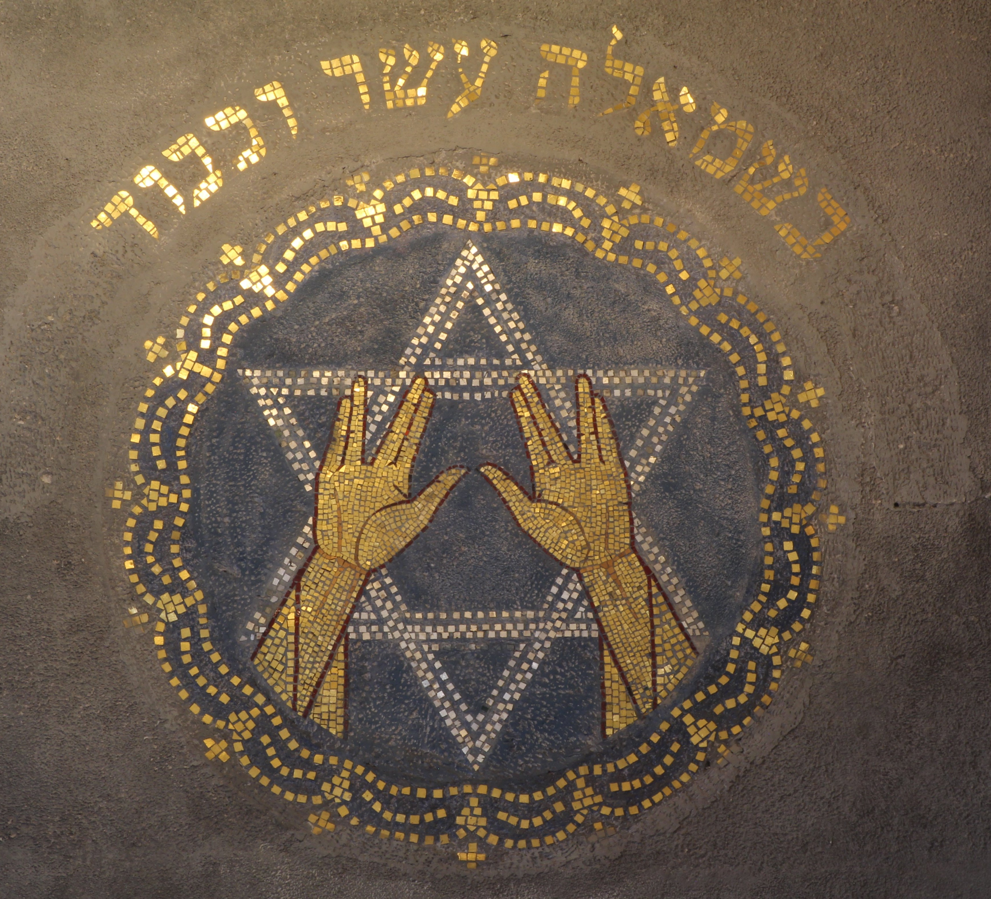 Detail of a mozaic in the Synagoge of Enschede. The mosaic text reads "בשמאלה עשר וכבוד" ("in her left hand riches and honor"), which is a part of Proverbs 3:16